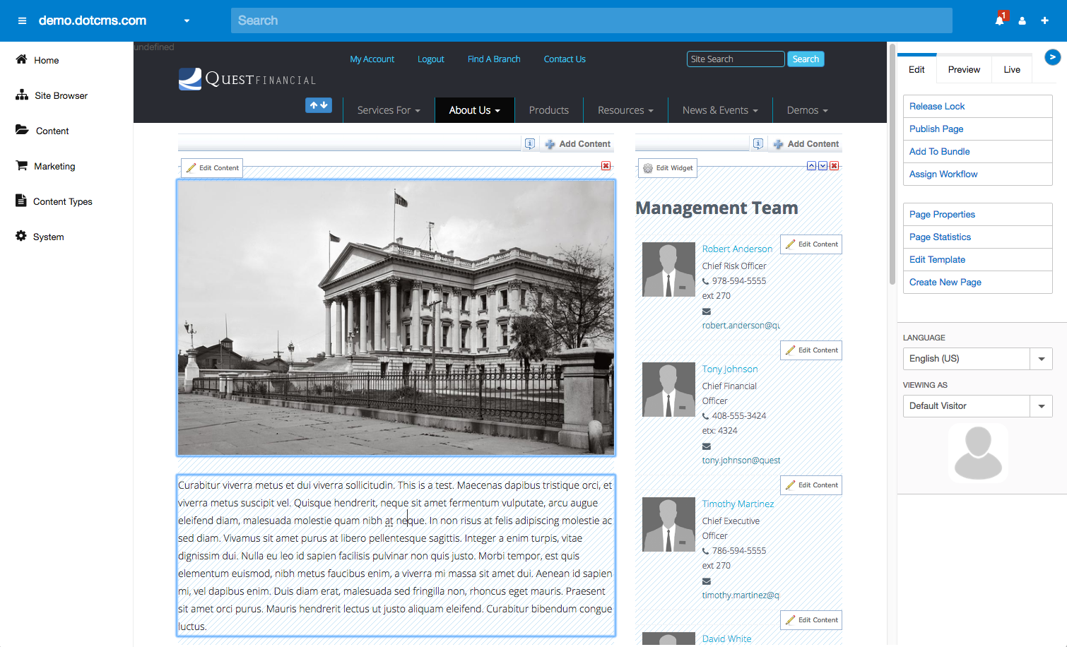 dotCMS Open Source Content Management System